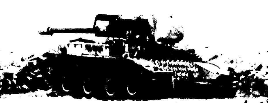 Original caption: Moroccan berm defense Pictured is a M56 Scorpion self-propelled anti-tank gun, protecting the Moroccan Wall against the Polisario attacks.